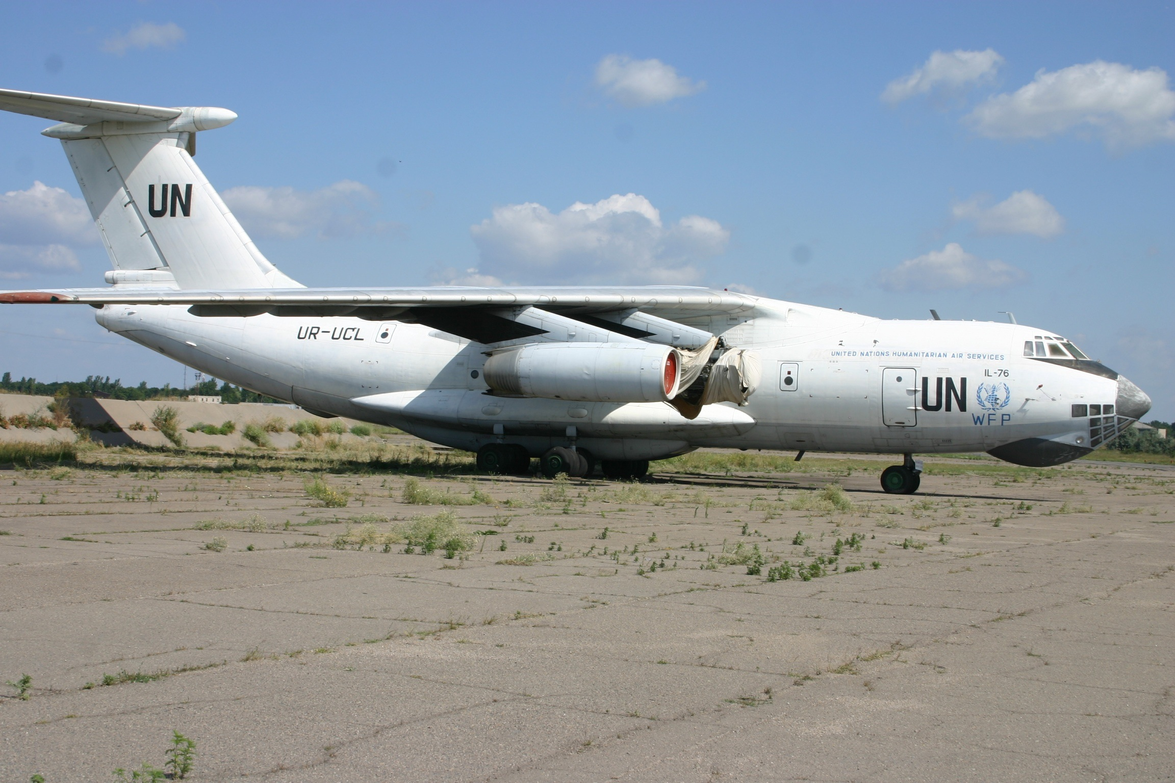 At Zaporizhia International Airport